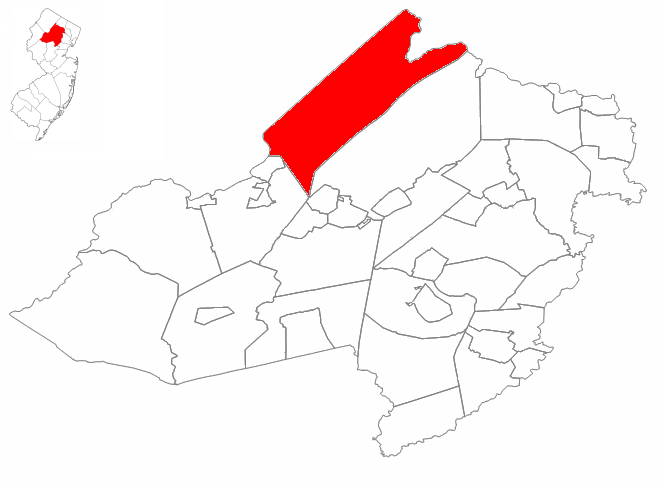 Position of Jefferson Township (highlighted in red) in Morris County. Morris County's position in New Jersey is in turn highlighted in red.